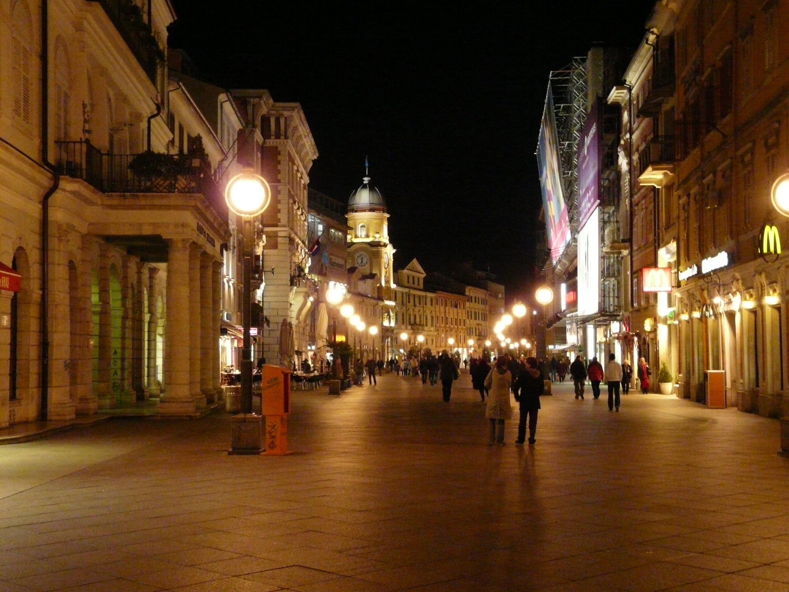 Korzo street at Radio Rijeka bulding late evening. Rijeka, Croatia.